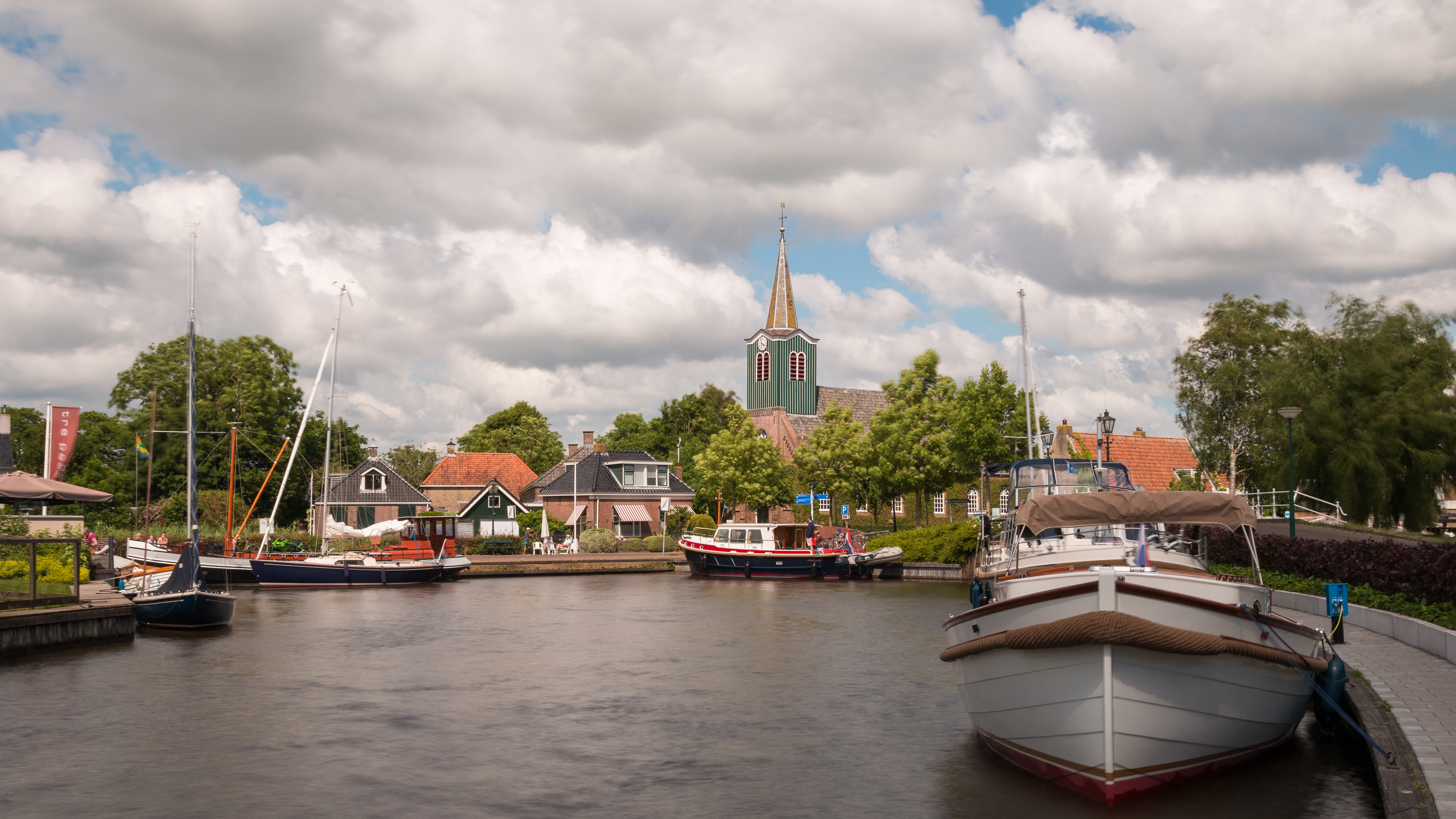 View of the harbor of Oudega, (Súdwest-Fryslân, The Netherlands)